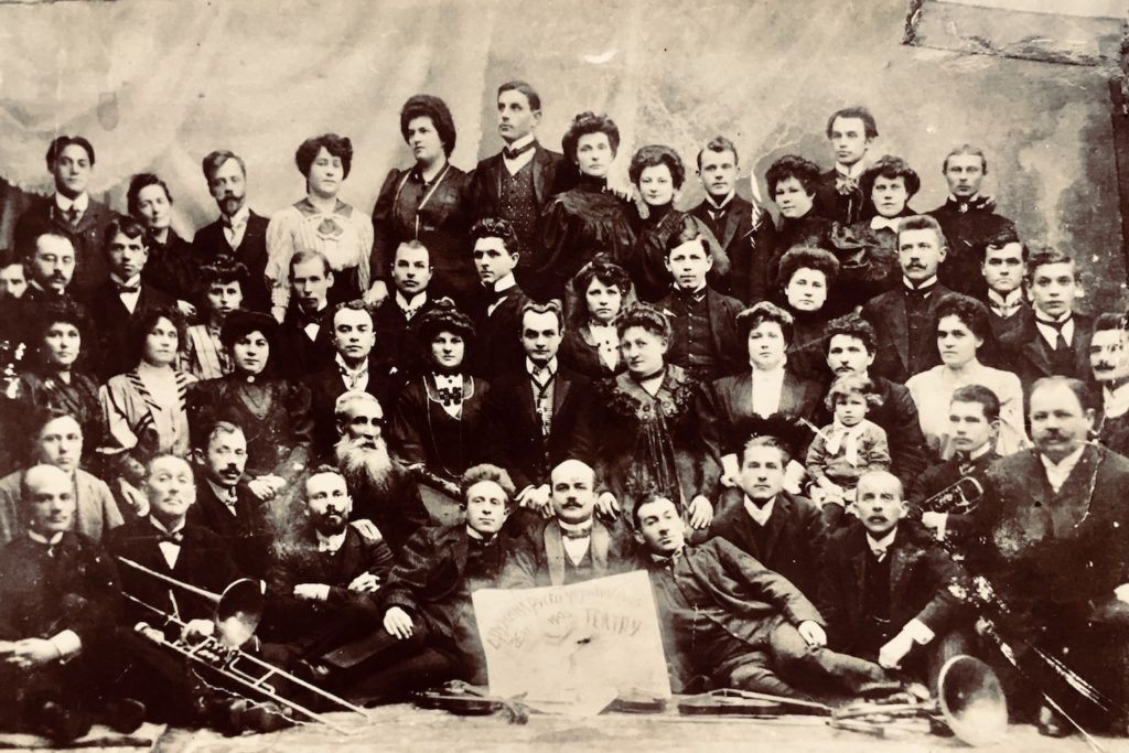 The Ruska Besida Theater 1908, Lviv, Ukraine